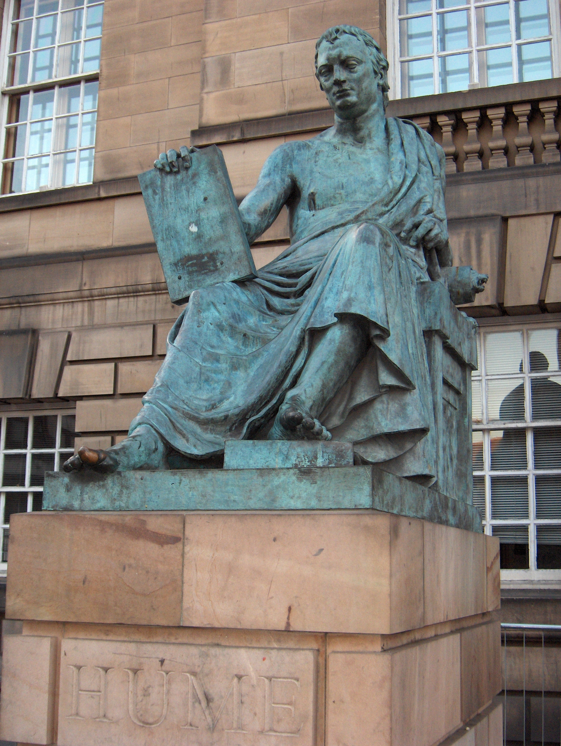 Statue of David Hume on the Royal Mile in Edinburgh. Work of sculptor Alexander Stoddart.